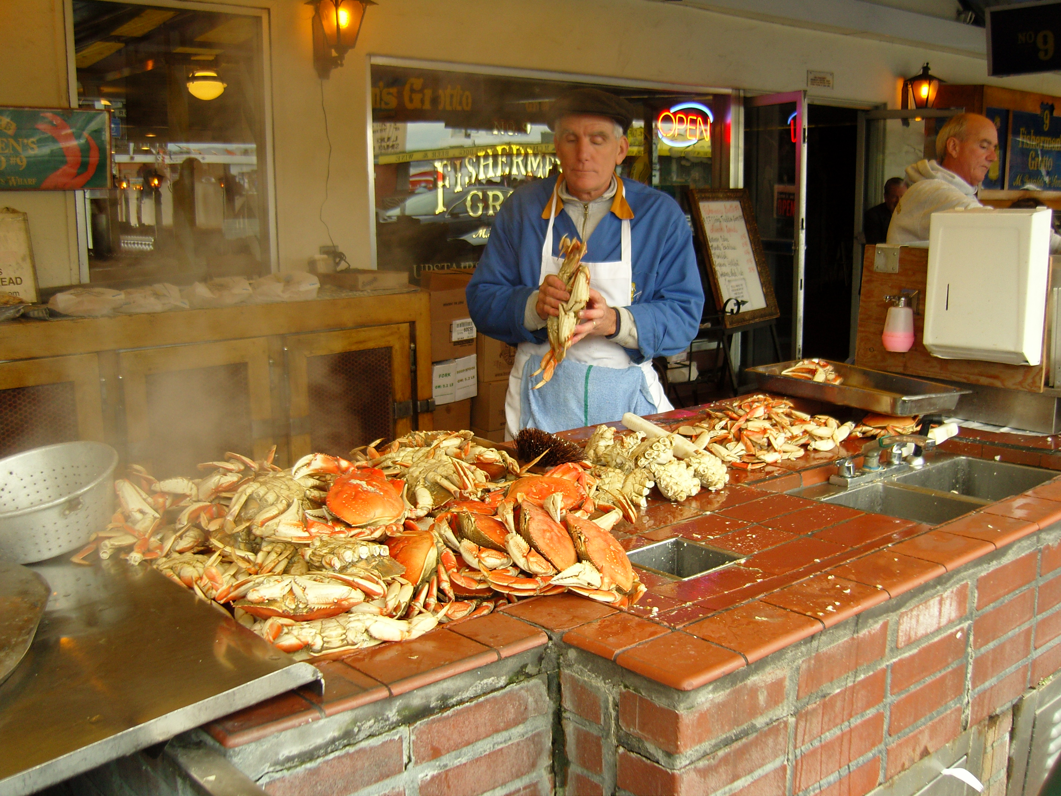 Tourists enjoy Dungeness Crabs at Fisherman's Wharf at San Francisco, California.